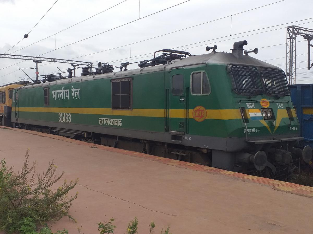 tkd wag9h 31483 at Toranagallu Jn